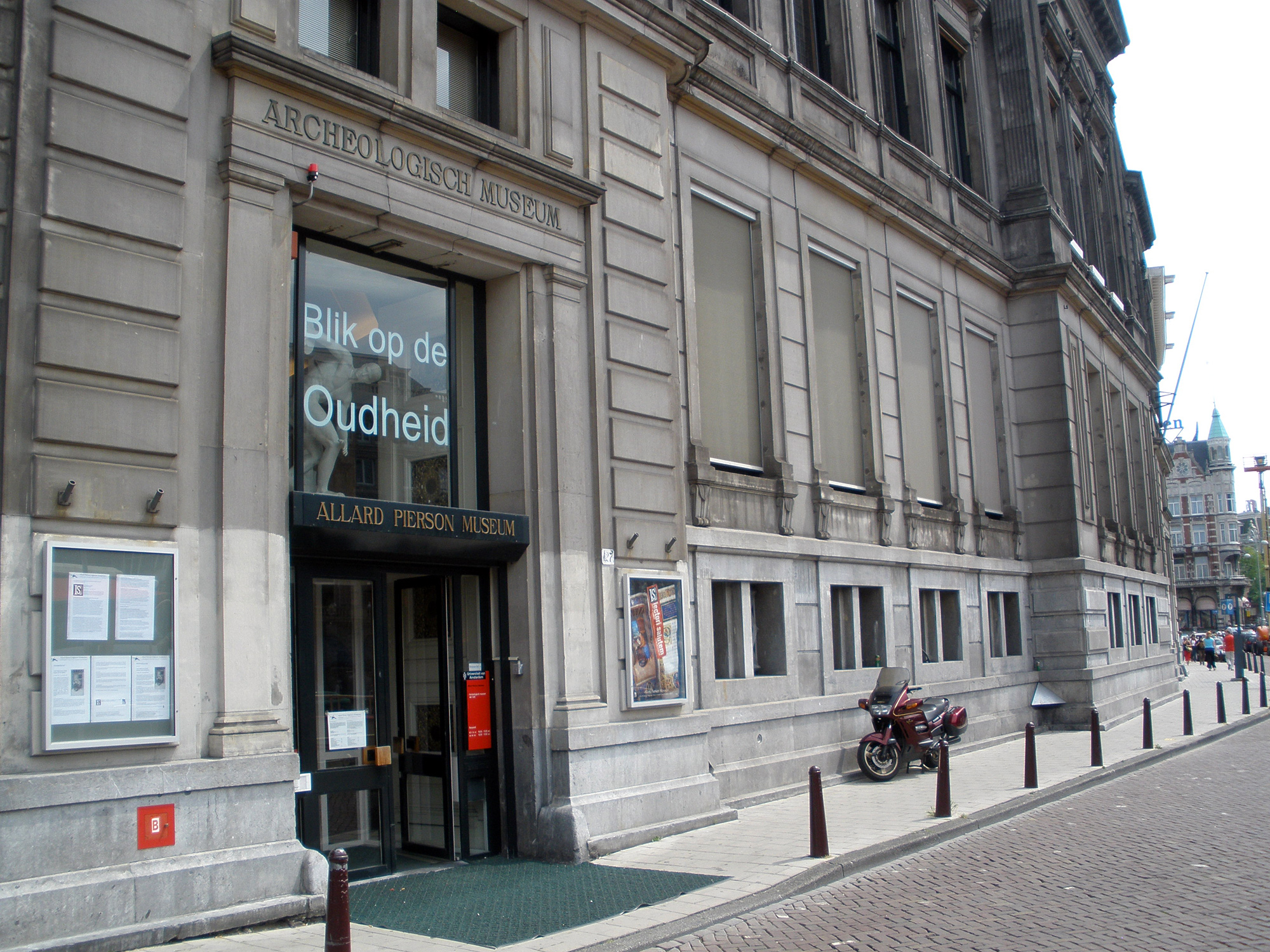 The Allard Pierson Museum in Amsterdam, former headquarters of the Nederlandsche Bank (Dutch national bank).